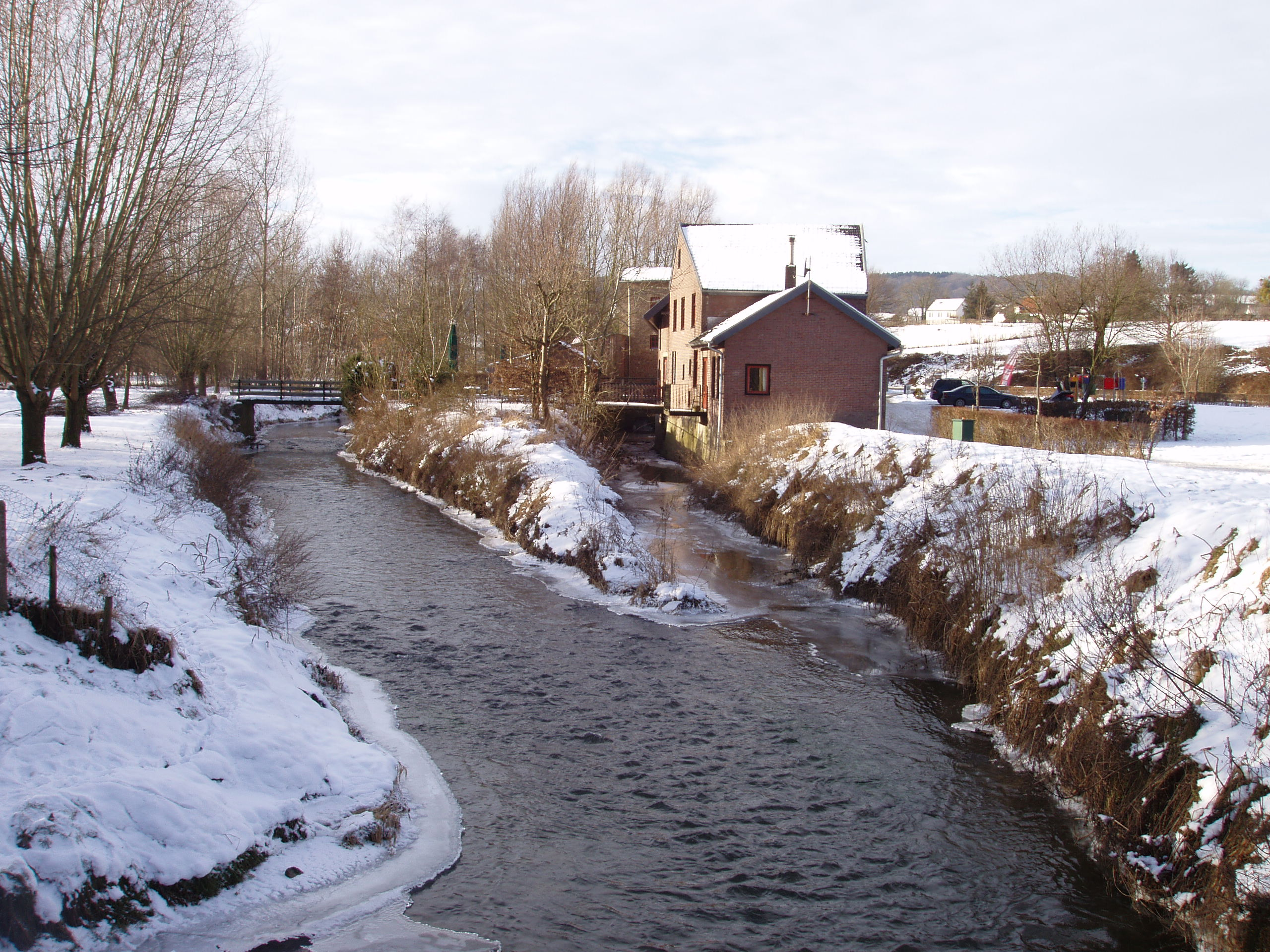 Wingbermolen, Epen, Watermill Limburg Netherlands